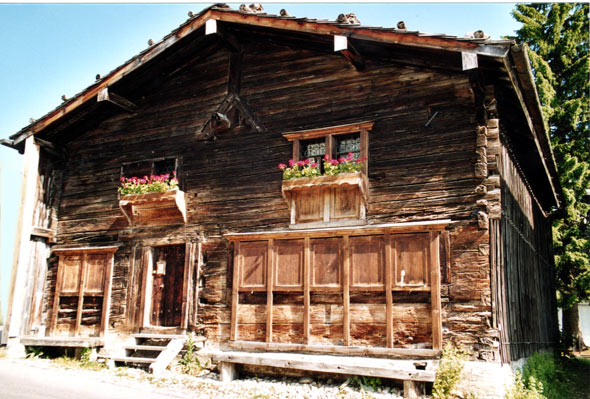 Birthplace of Huldrych (Ulrich) Zwingli, Protestant reformer, in Wildhaus, St. Gallen, Switzerland